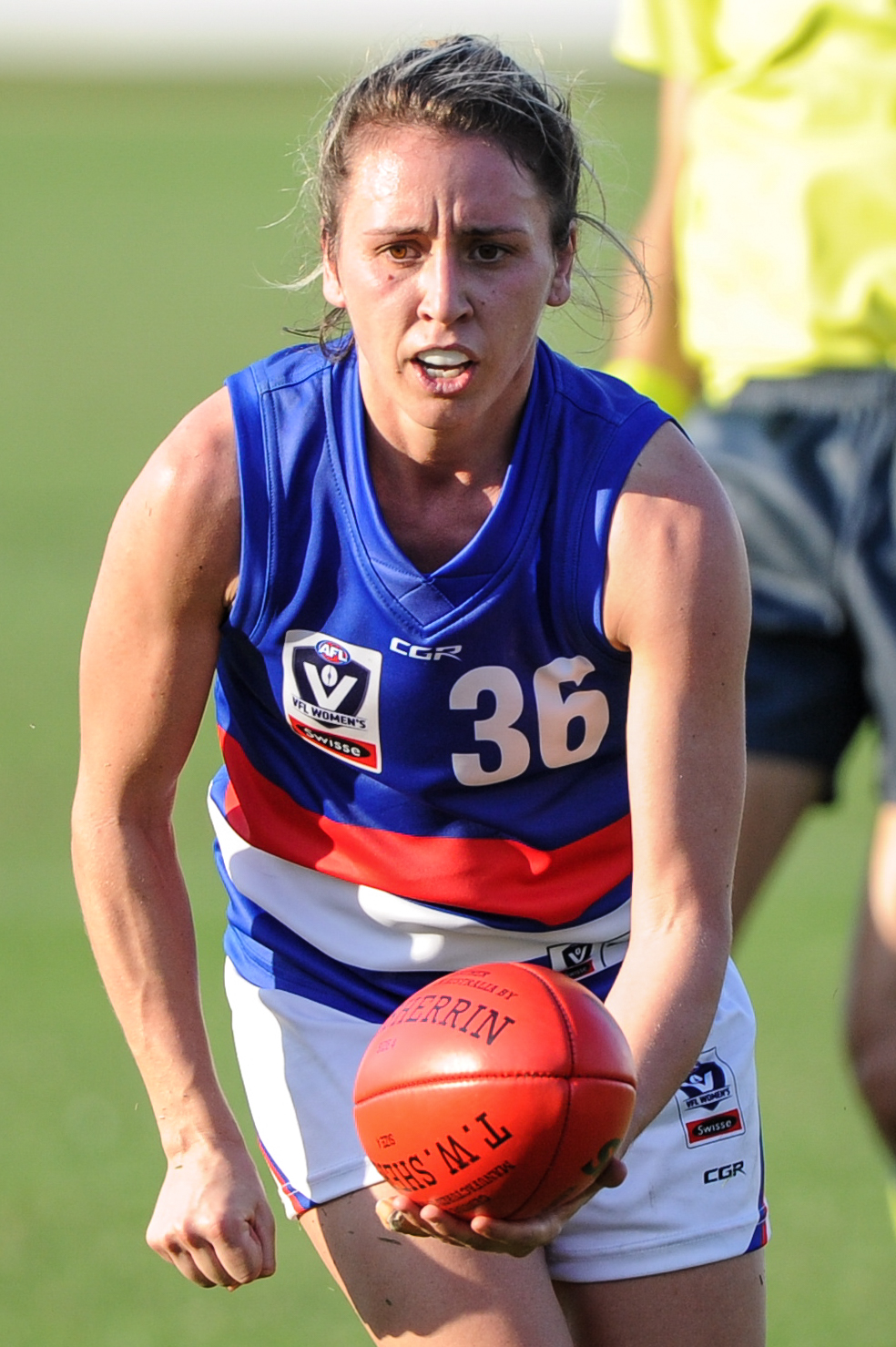 Angelica Gogos of Western Bulldogs handballing during the 2018 VFLW round 5 match between NT Thunder and Western Bulldogs at TIO Stadium on Saturday, 2 June 2018 in Darwin, Australia.